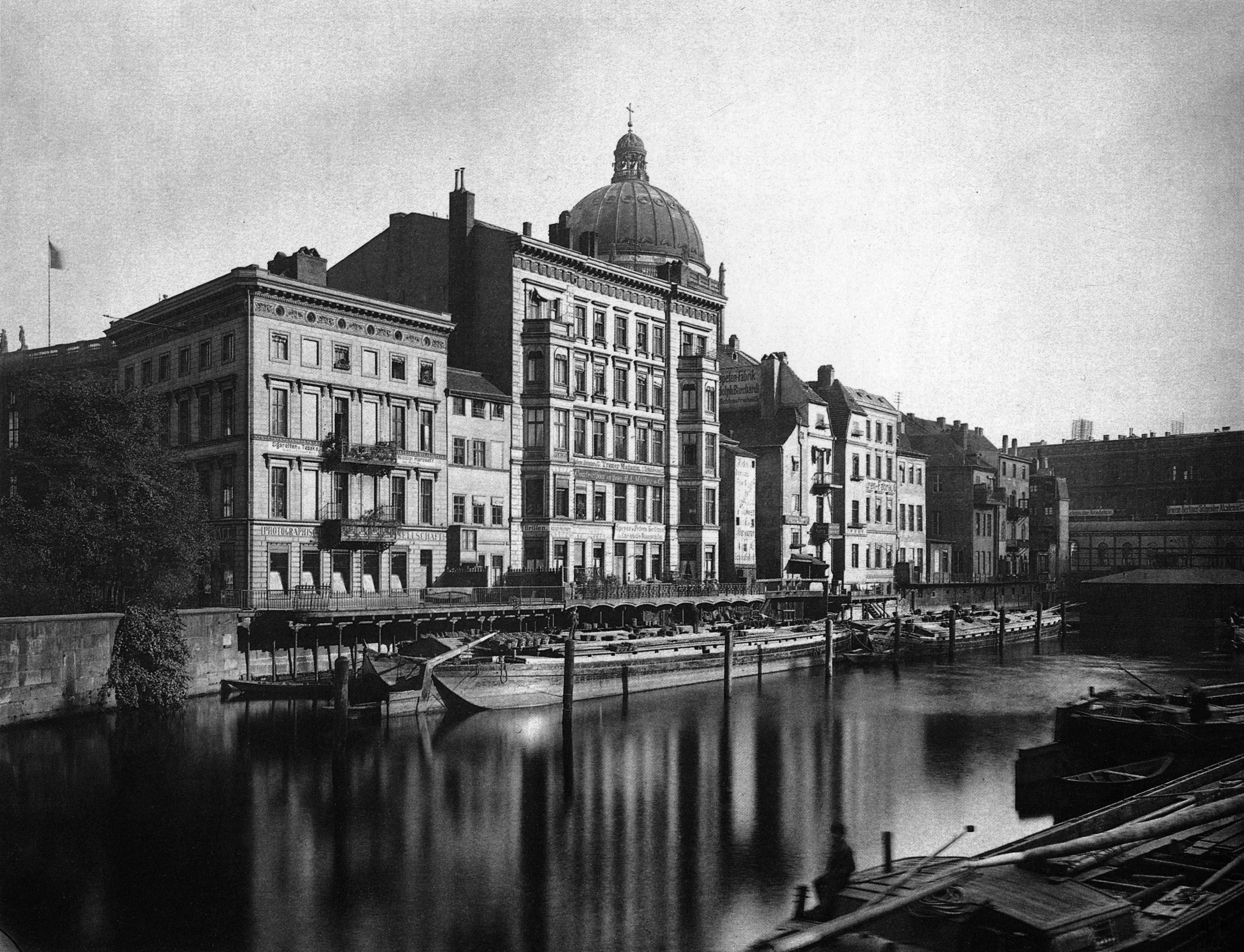 View on the Kupfergraben (“copper moat”), a part of the River Spree, behind the water are the buildings of the Schloßfreiheit in front of Berlin City Palace.